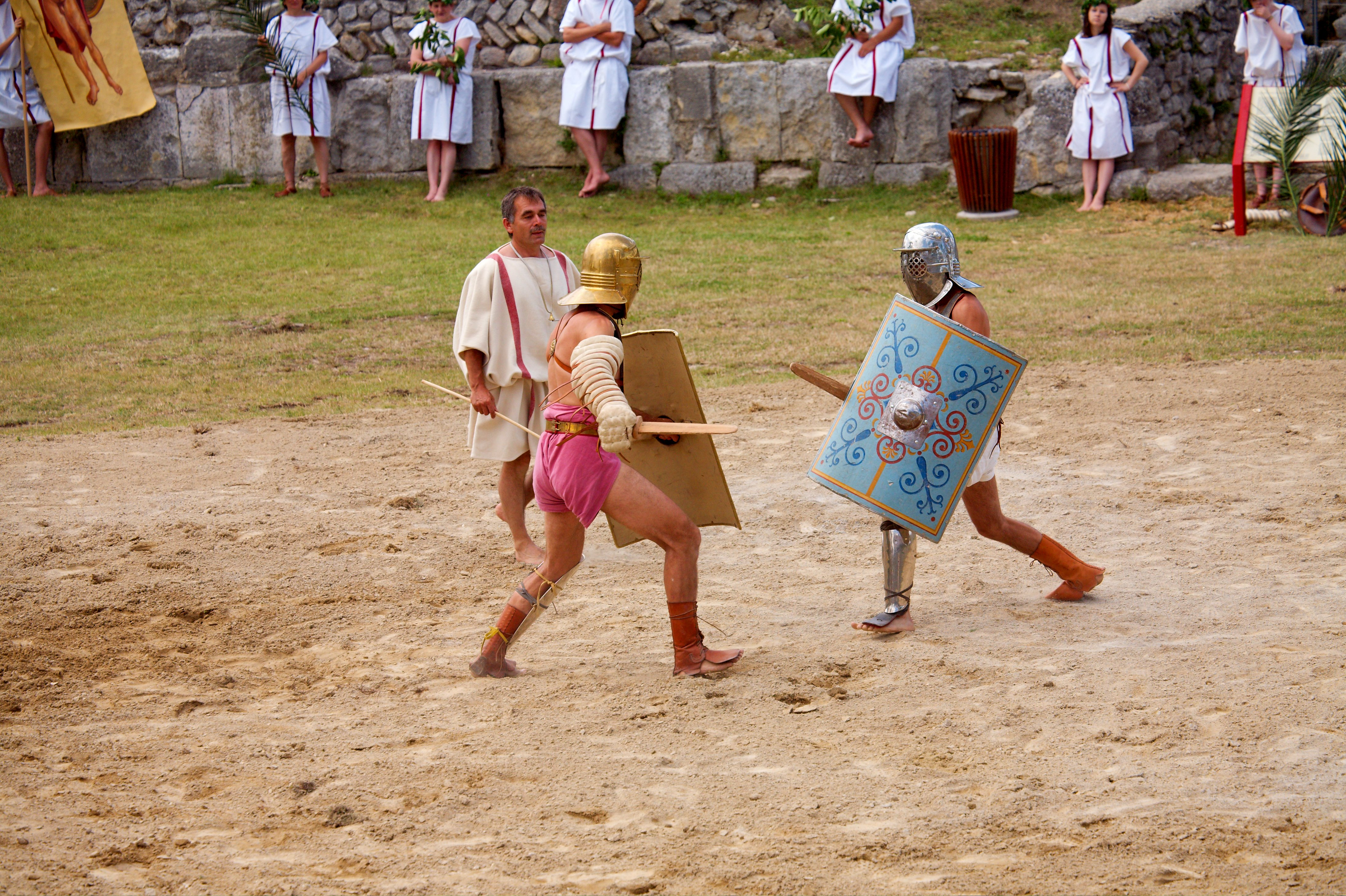 Show fight of the "familia gladiatoria pulli cornicinis" in Carnuntum, Austria.